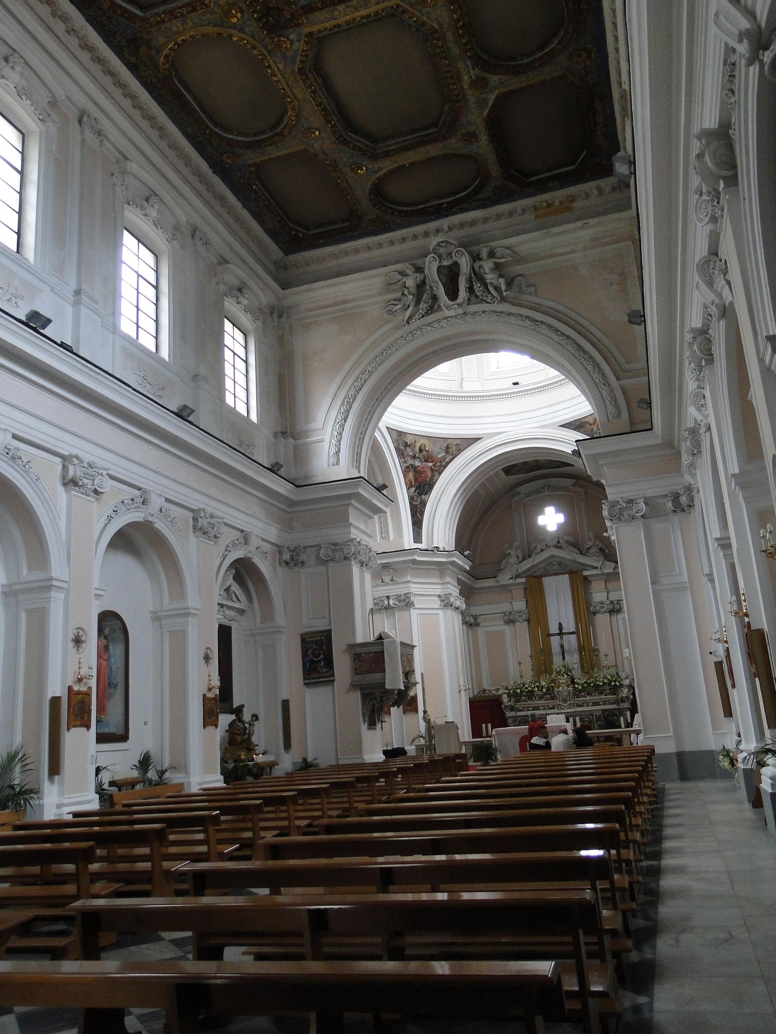 Interior of The Church of St. John Baptist in Vietri sul Mare (Italy)